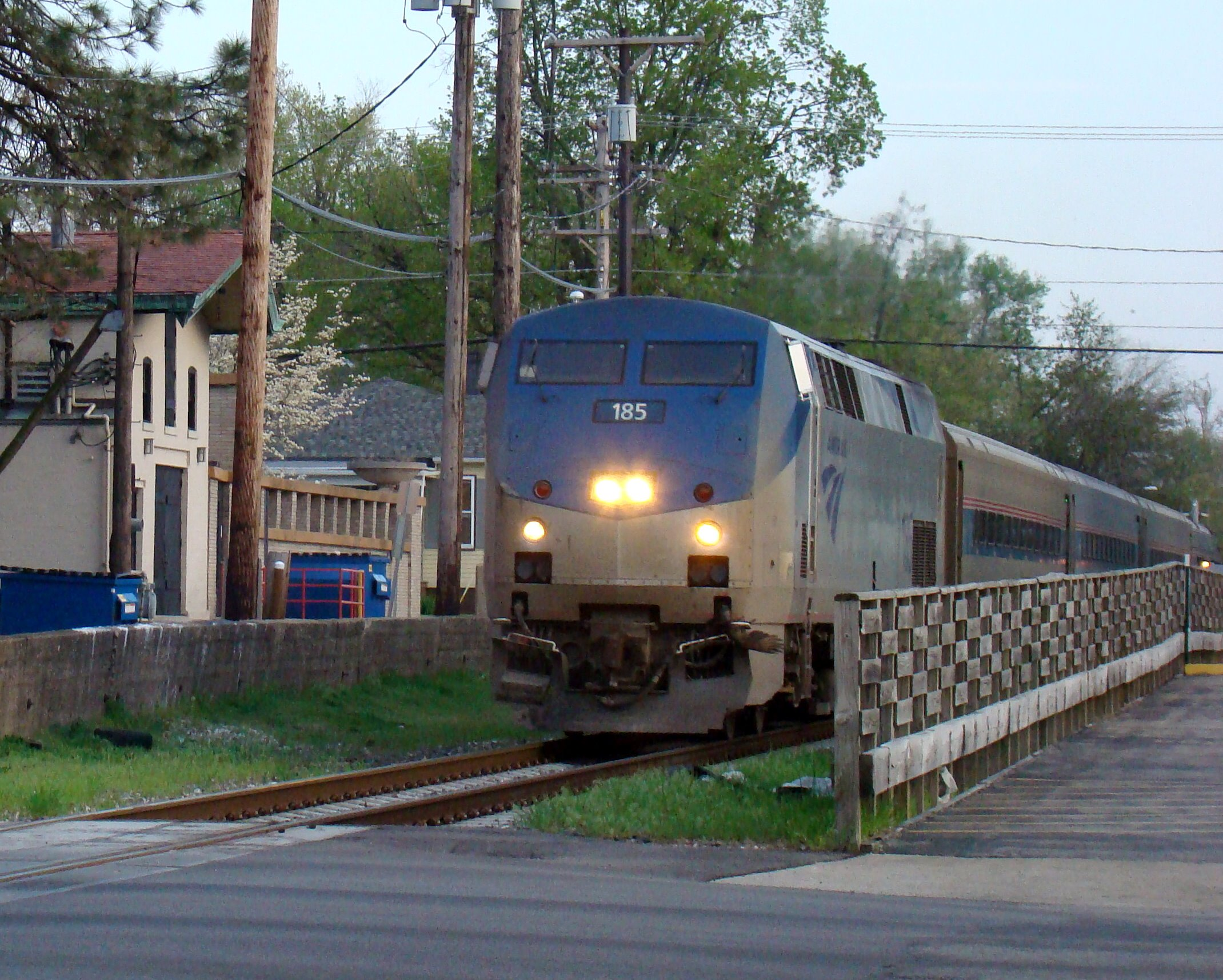 Train #306 heading into Springfield from St. Louis behind the Dana-Thomas House.